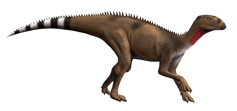 Reconstruction of Pisanosaurus mertii as a silesaur.